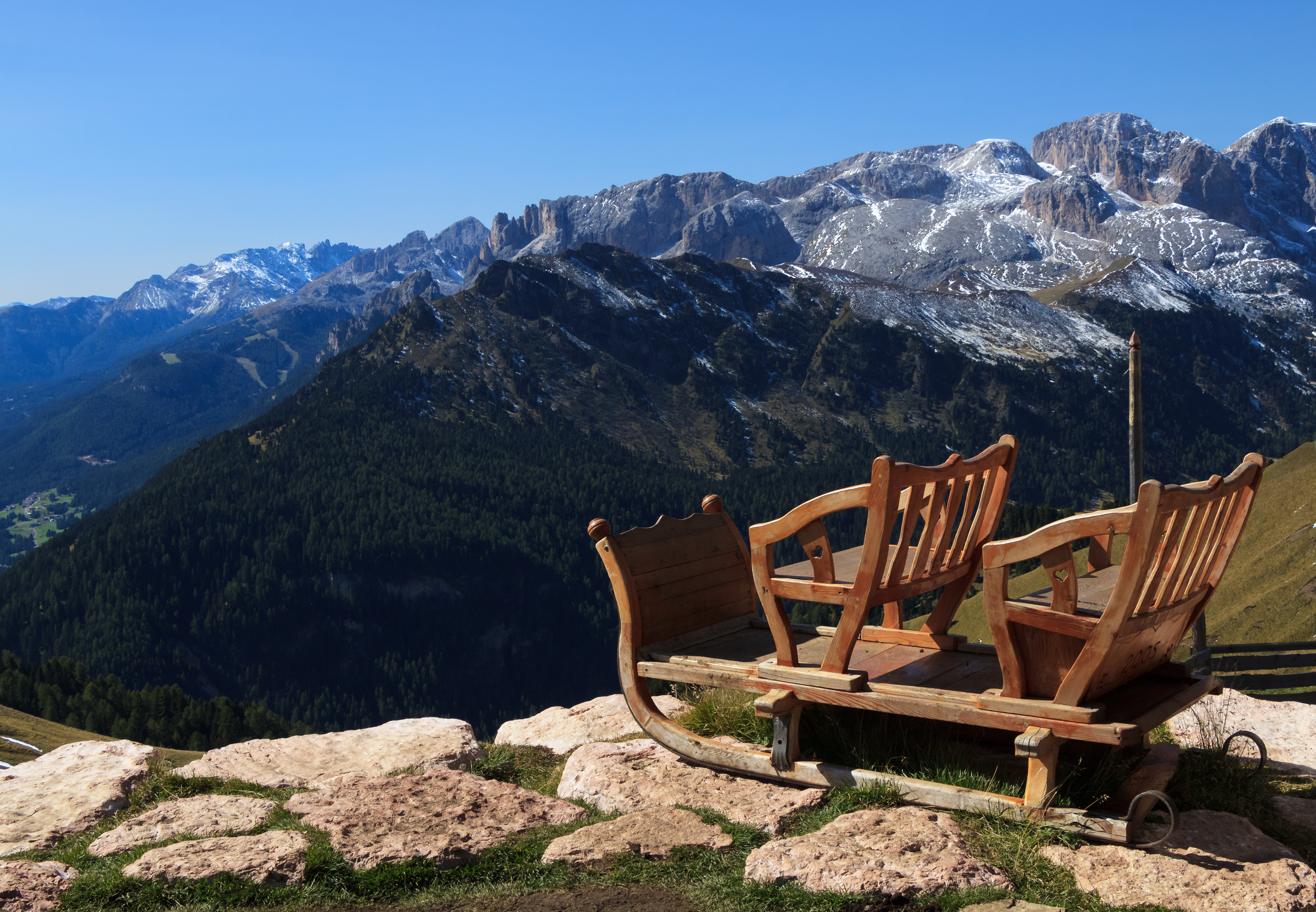 Sleigh at the Rifugio Friedrich August, in the background the Duron Valley, Trentino, Italy.